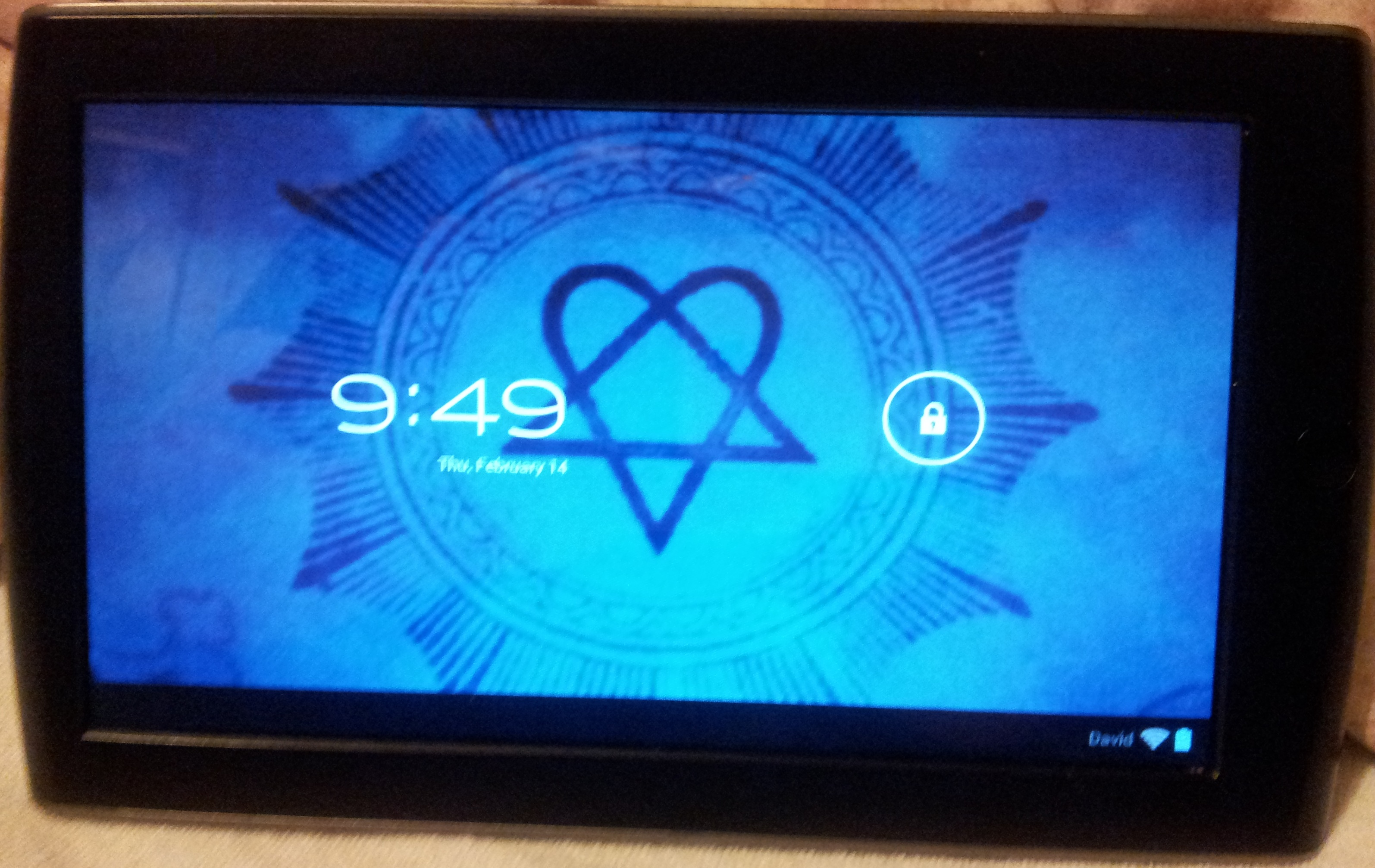 Coby Electronics Corporation Coby Kyros brand tablet (front).